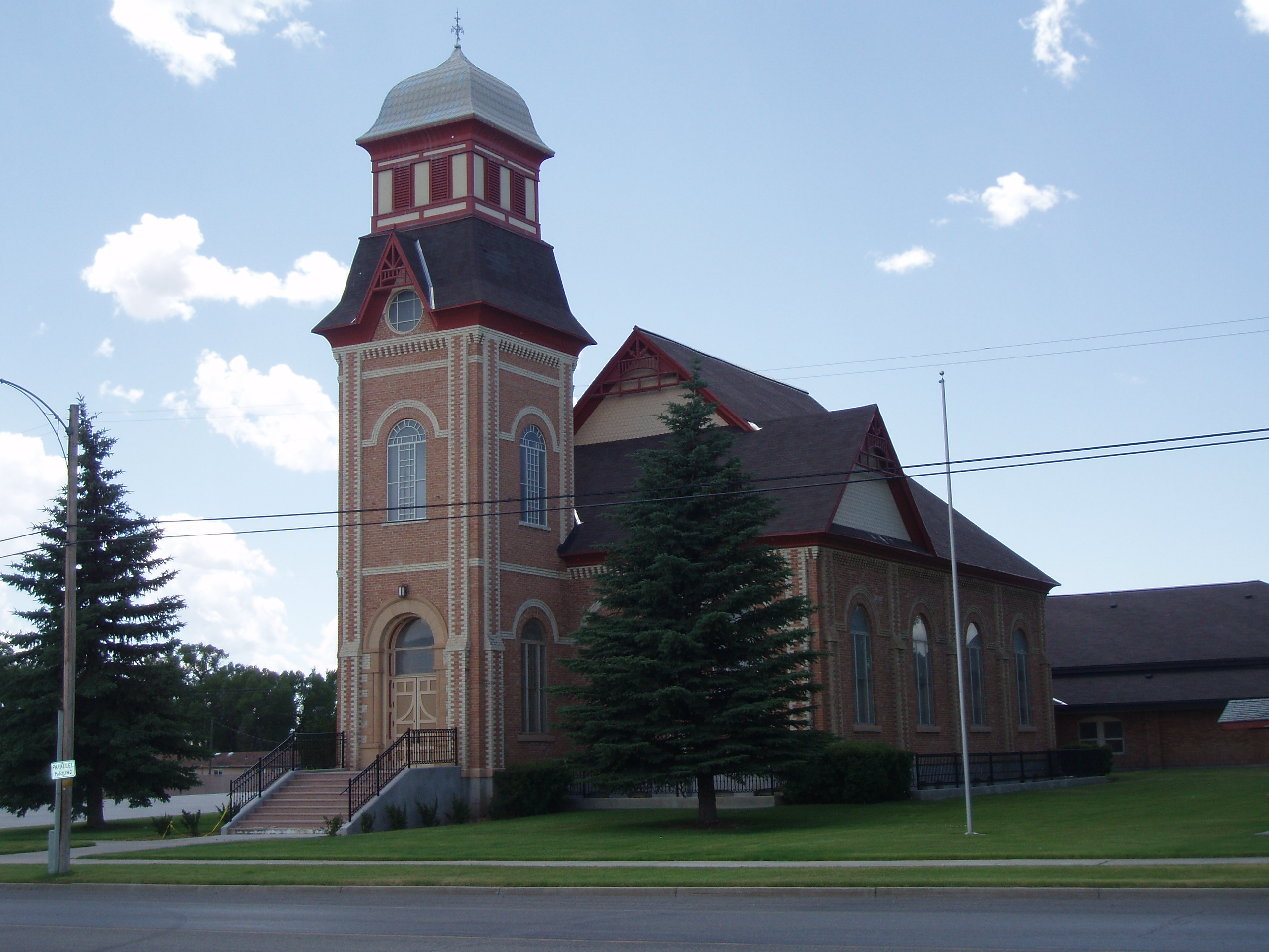 The Randolph Tabernacle, a historic building in Randolph, Utah, United States.